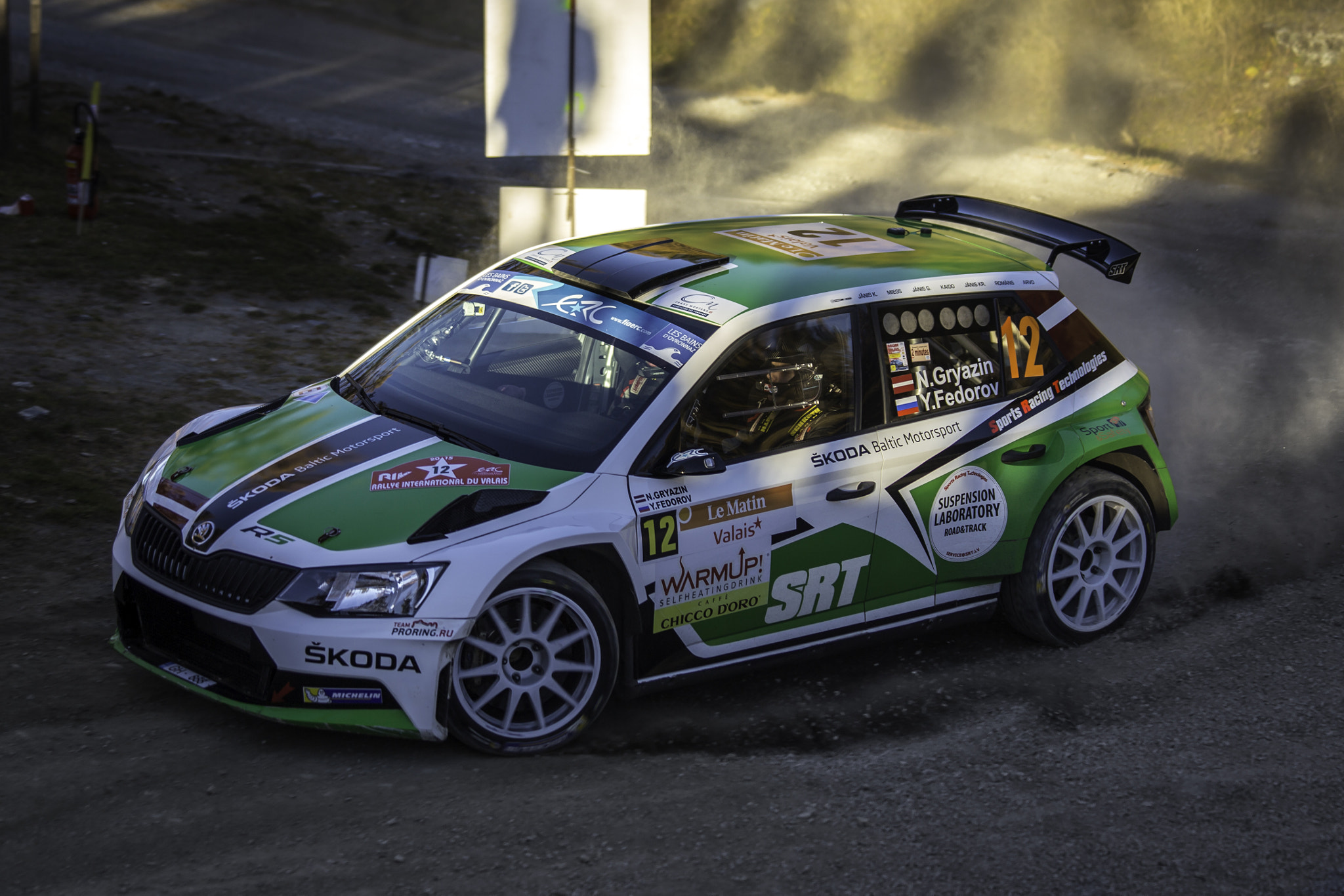 500px provided description: drift - rally du valais [#autumn ,#sunset ,#switzerland ,#street ,#car ,#motion ,#speed ,#drift ,#green ,#blur ,#rally ,#wallis ,#valais]